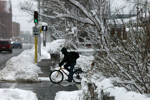 Bicyclist at West 38th Street and Blaisdell Avenue in Minneapolis, Minnesotabicyclist